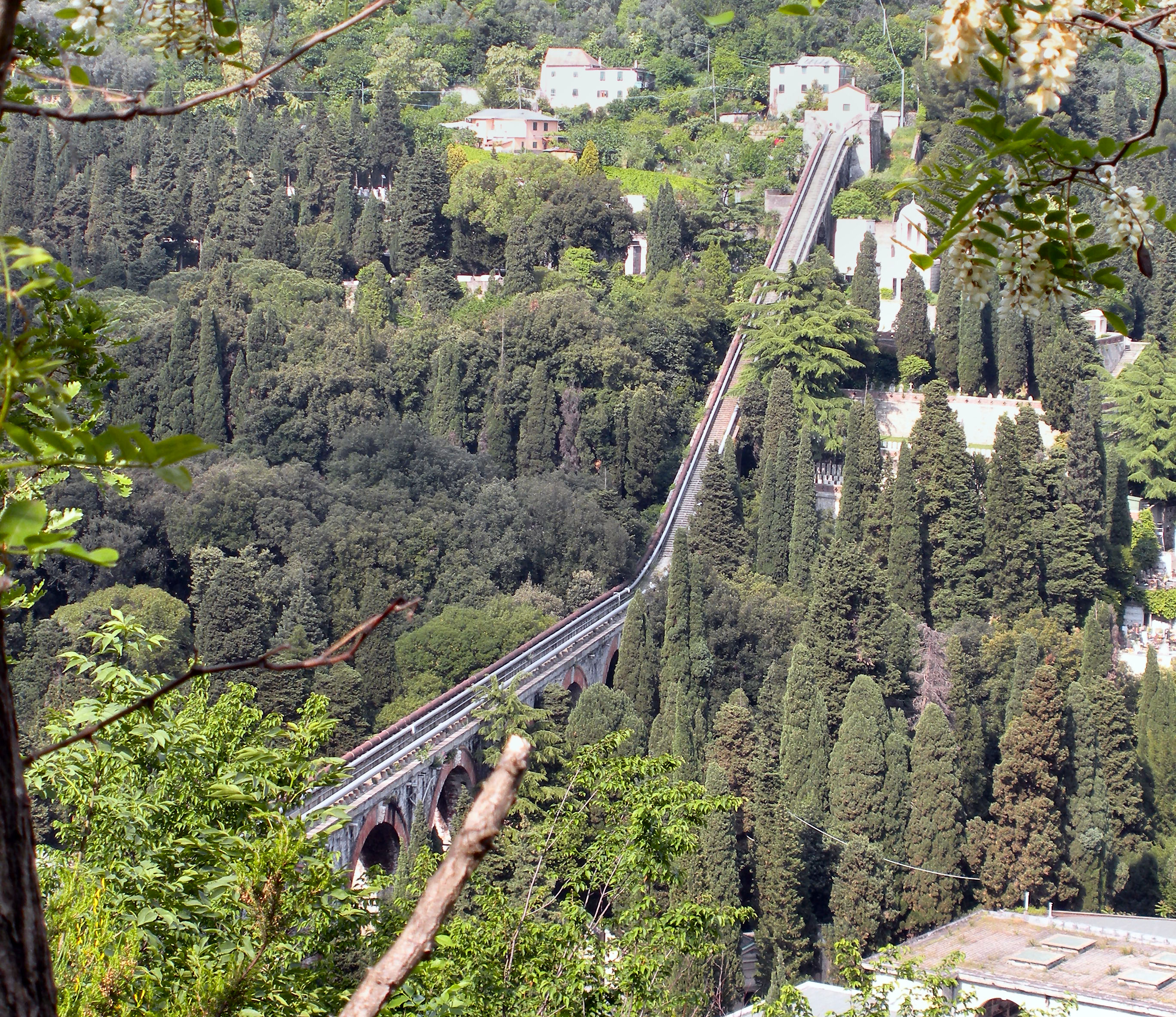 Genoa (Italy), quarter of Staglieno, Siphon Bridge on torrent Veilino.